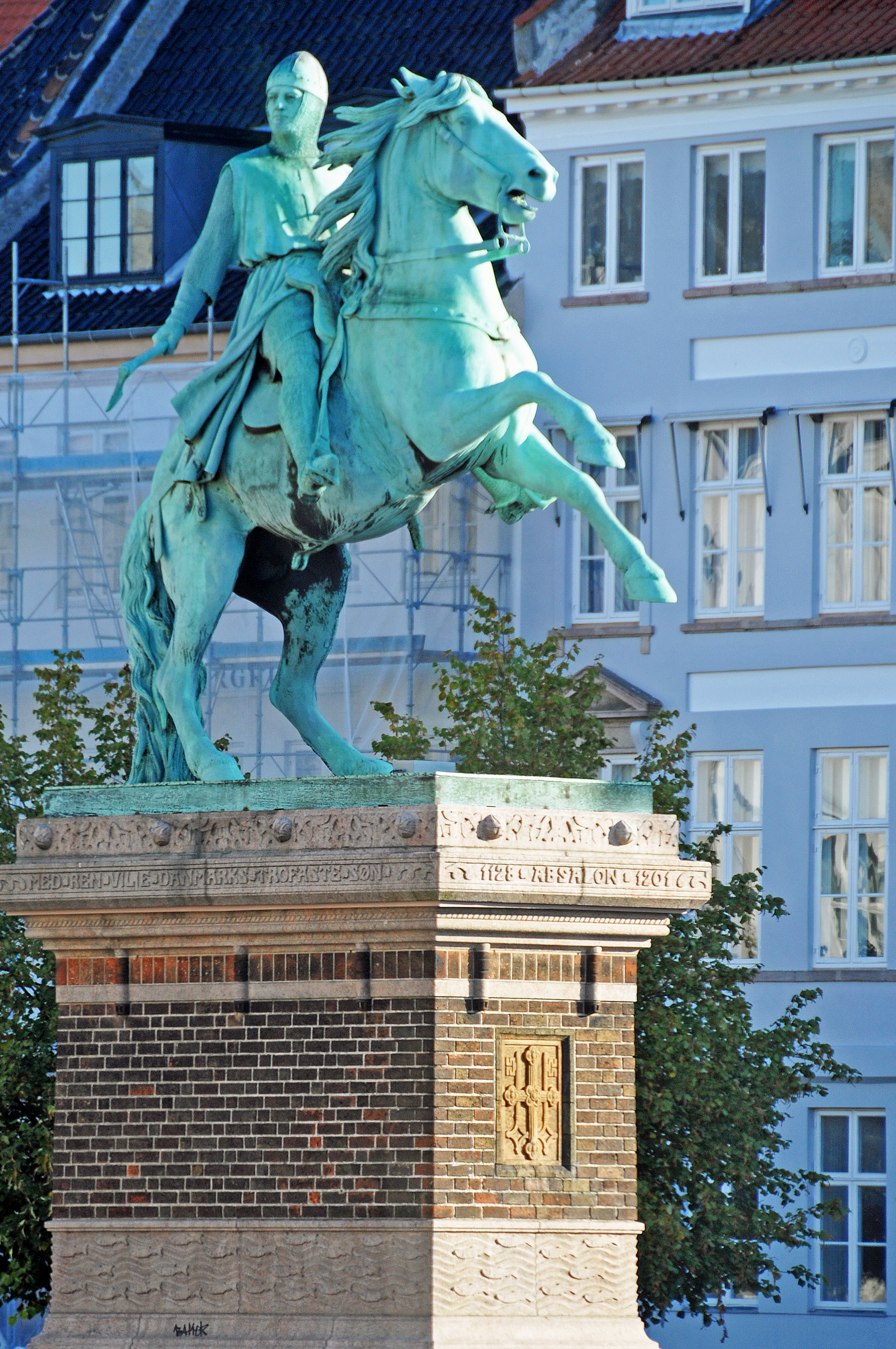 PLEASE, no multi invitations in your comments. Thanks. Another shot from the bus as we passed by. Equestrian statue of the warrior-priest Bishop Absalon, clad in chain mail and wielding an axe. He died in 1201 and remains one of the most striking and figures of the Middle Ages, and was equally great as churchman, statesman and warrior. He enjoyed warfare and was the best rider in the army and the best swimmer in the fleet. Yet he was not like the ordinary fighting bishops of the Middle Ages, whose sole concession to their sacred calling was to avoid the shedding of blood by using a mace in battle instead of a sword.